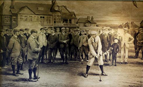 Liverpool Golf, 1902, first international match: England vs Scotland